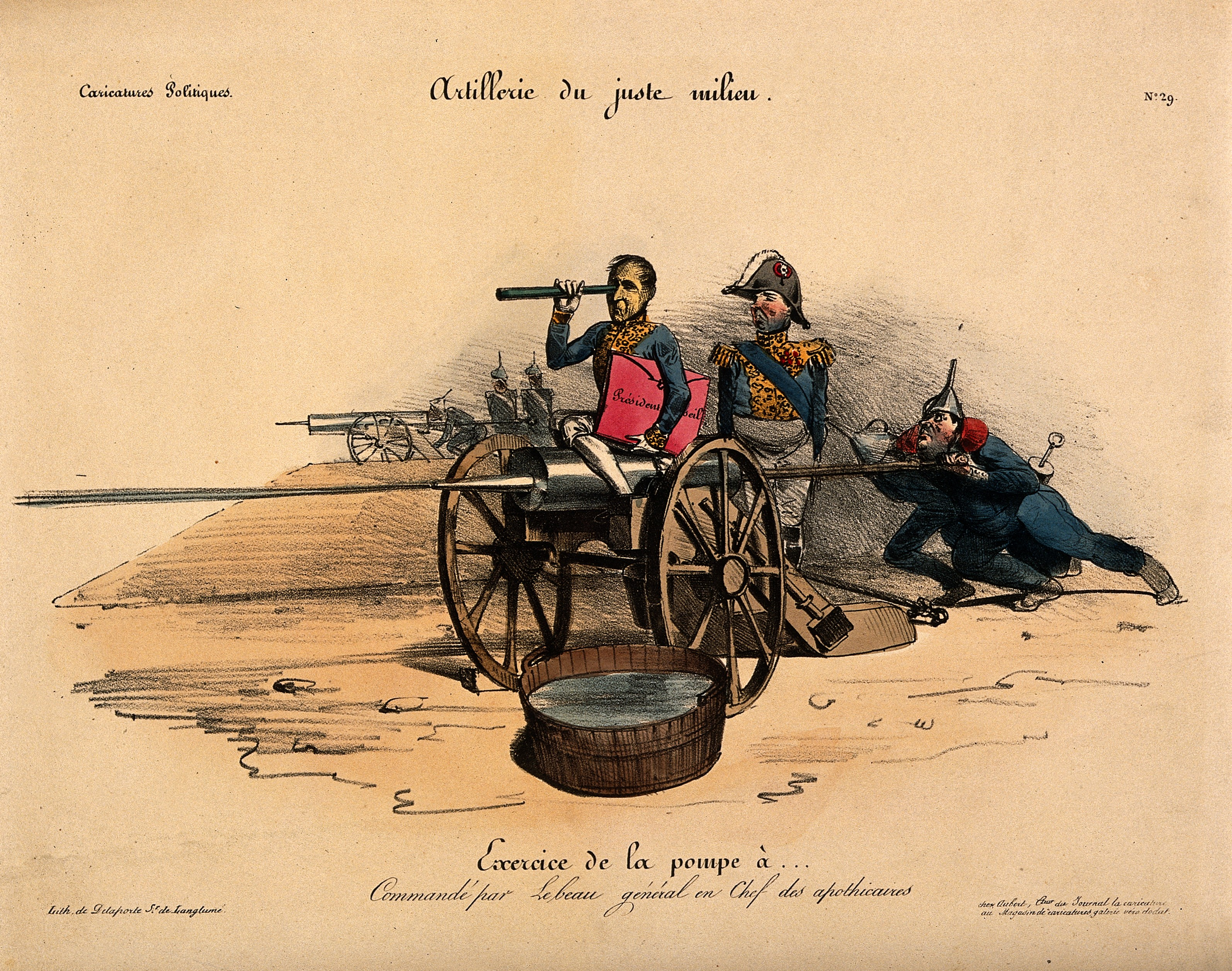 Topic-LCSH: Enema. Weapons. Armor. Pharmacists -- France -- 19th century. Artillery. Telescopes. Military uniforms. Riot control -- France -- 19th century. Demonstrations. Water. Genre/Technique: Caricatures. Lithographs.